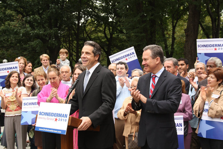 Eric Schneiderman Endorsed by Andrew Cuomo for NYS AG